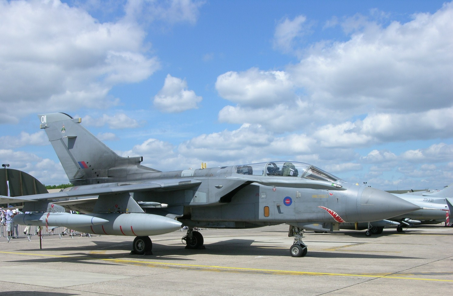 I think this is ZA400/011 a Tornado GR.4A of No. 2 Squadron based at RAF Marham, but I'm not sure and my eyes aren't good enough to identify the badge on the tail. It's very rare for an RAF aircraft to have a shark's mouth. In the Static at 2008s Dijon airshow